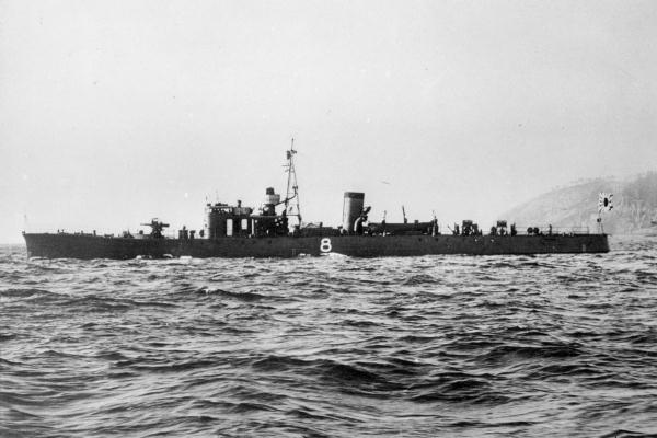 IJN No.8 submarine chaser, which is No.4 class and completed at Mitsui Tama shipyard.